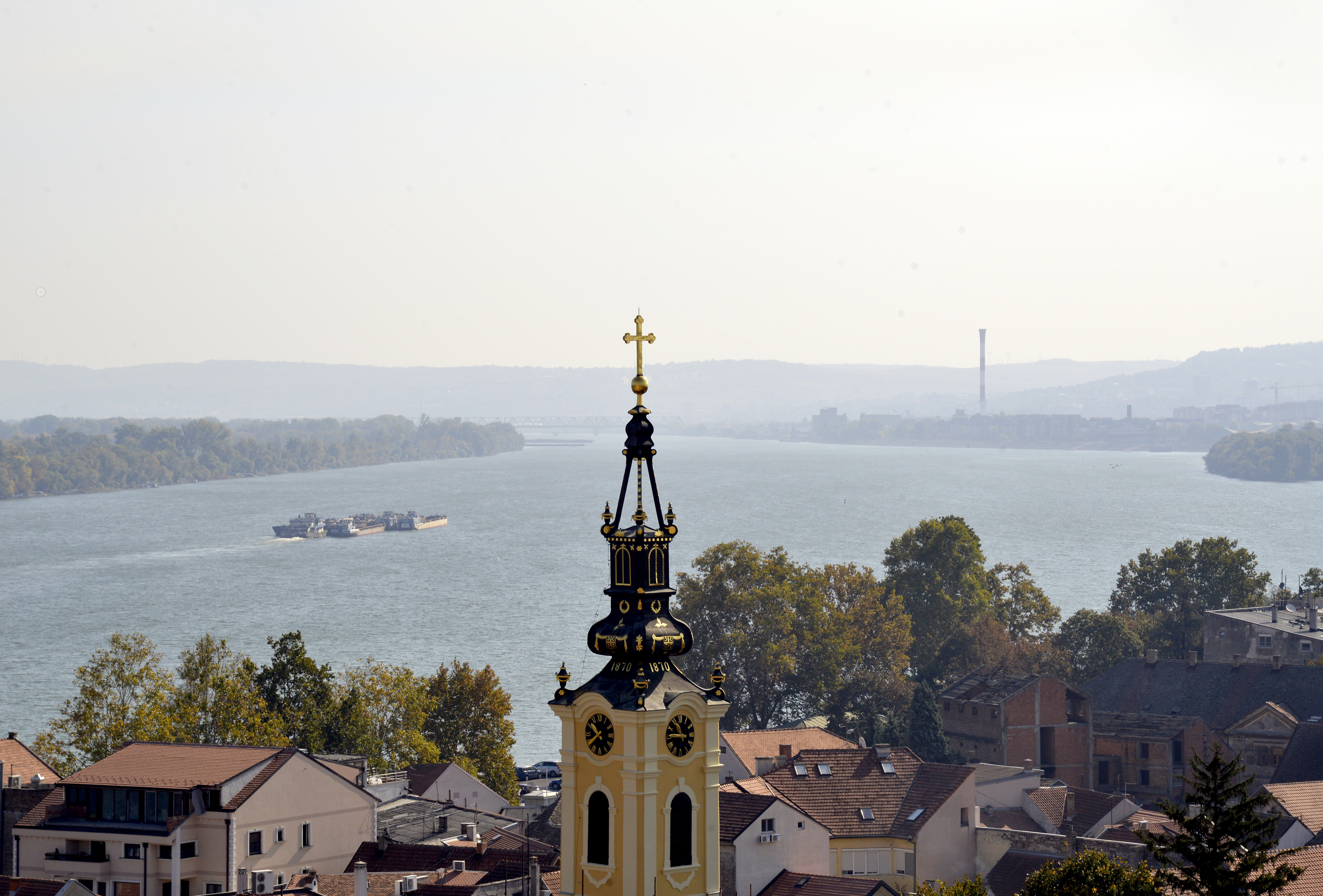 Panorama of Zemun, view from Gardoš. Panorama of Zemun, view from Gardoš. St. Nicholas church